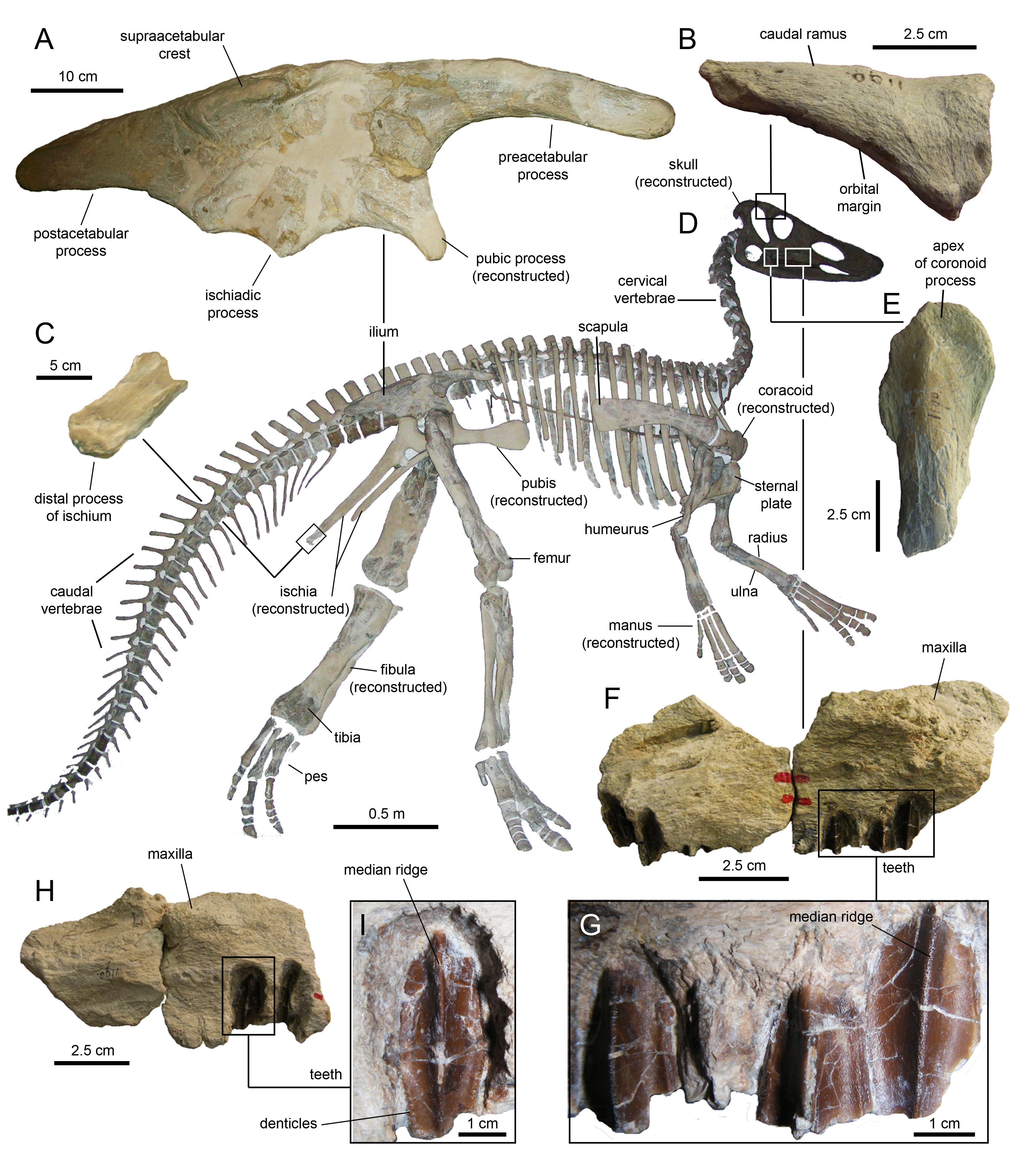 Partial skeleton of Claosaurus agilis (holotype YPM 1190). (A) Right ilium in lateral view. (B) Partial postorbital in lateral view. (C) Distal process of the right ischium in lateral view. (D) Mounted partial skeleton of YPM 1190. (E) Coronoid process of the right dentary in lateral view. (F) Fragment of maxilla in lateral view. (G) Detail of the maxillary tooth crowns in (F). (H) Fragment of maxilla in lateral view. (I) Detail of a maxillary tooth crown in (H).